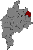 Location of el Pont de Bar in Alt Urgell